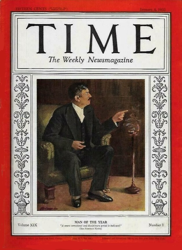 Pierre Laval on Time magazine cover, 1932.